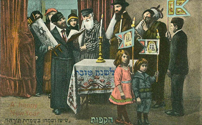 Description: Within the greeting card, the children have apples supporting a lit candle on the top of their Simhat Torah flag, a common practice during the printing of the card. Creator: Williamsburg Art Company, New York Date: circa 1910 Object origin: Germany Medium: printed on paper Repository: Yeshiva University Museum Call Number: 2001.360 Rights Information: No known copyright restrictions; may be subject to third party rights. For more copyright information, click here. See more information about this image and others at CJH Museum Collections. This material may be used for personal, research and educational purposes only. Any other use without prior authorization is prohibited. Please contact the Yeshiva University Museum at for further information.